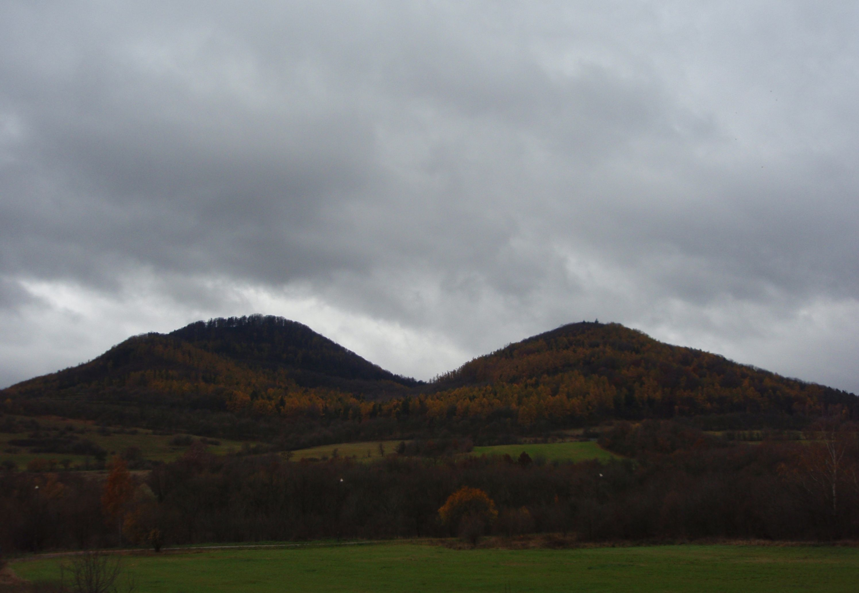 View from Miřetice (Klášterec nad Ohří) to Doupovské hory with ruins of castle Lestkov